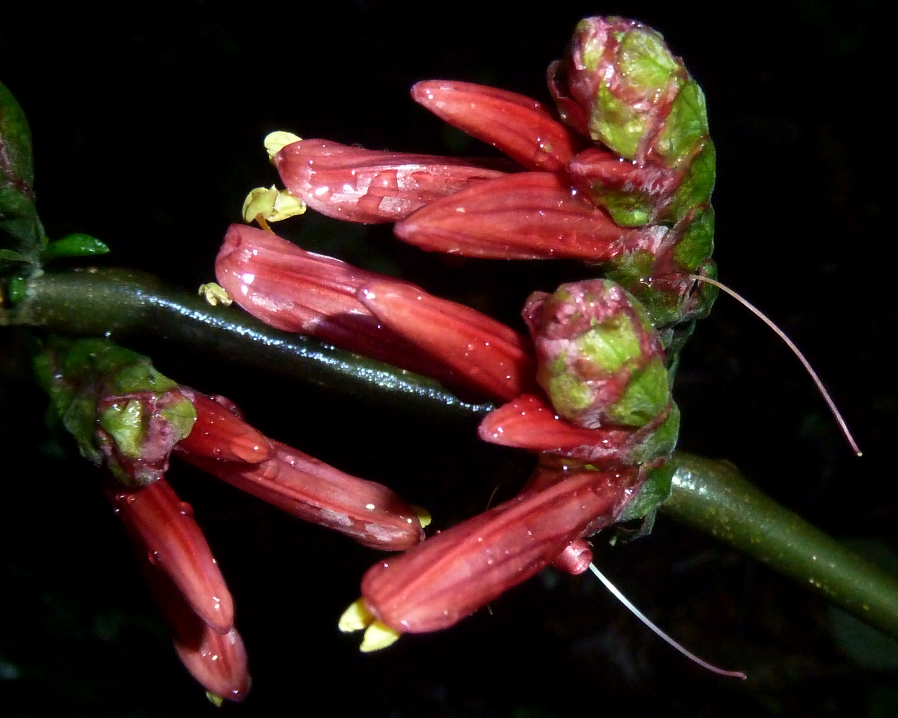 Inflorescence of a Red sunbird bush in a garden in Hillcrest, KwaZulu-Natal